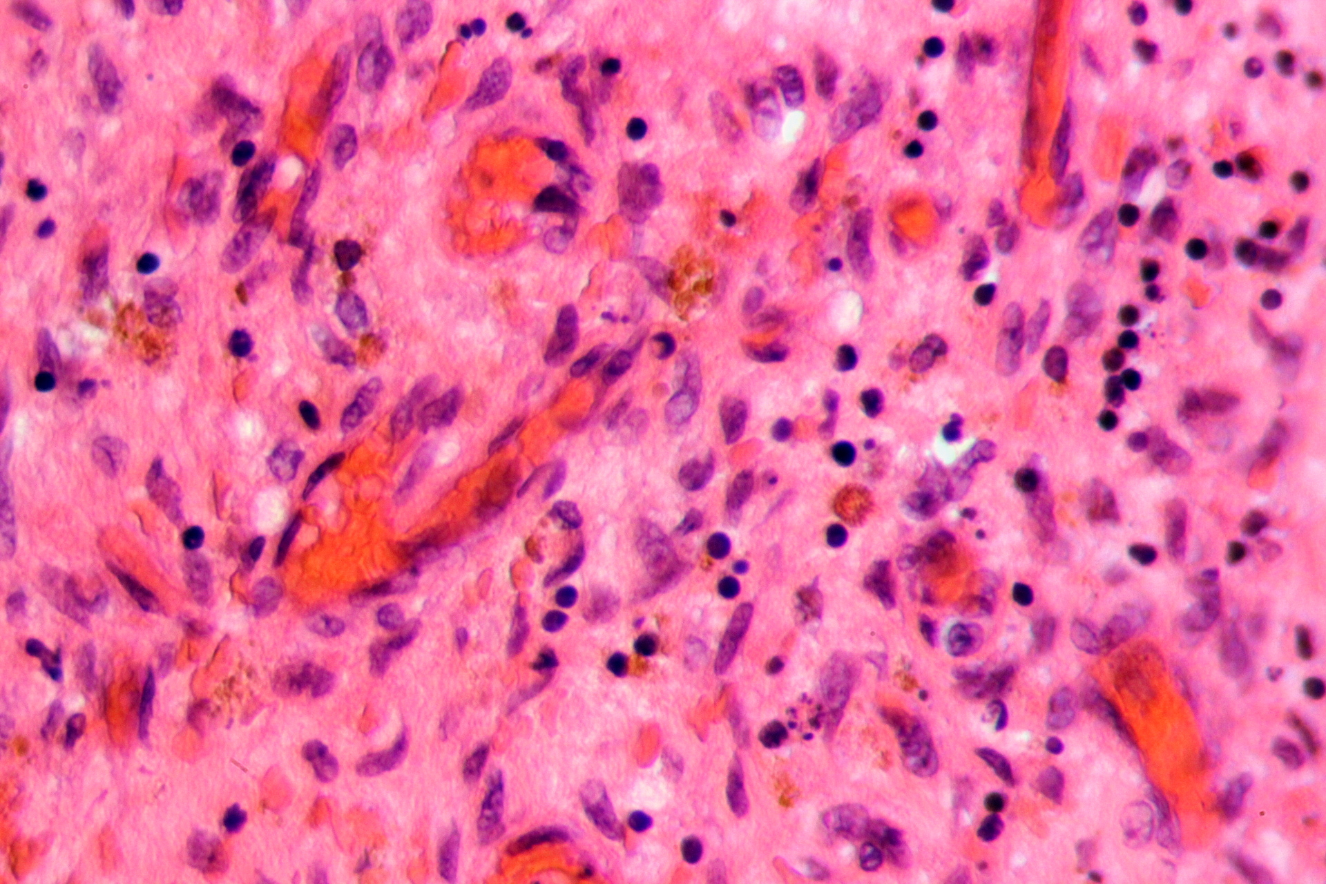 Organizing deep vein thrombosis.